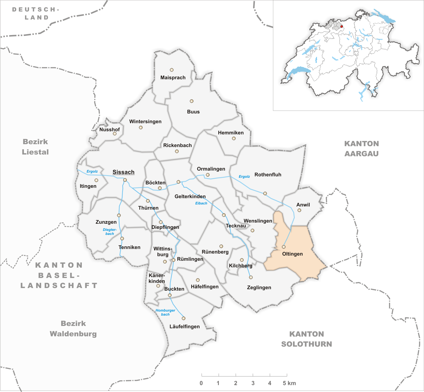 Municipality Oltingen